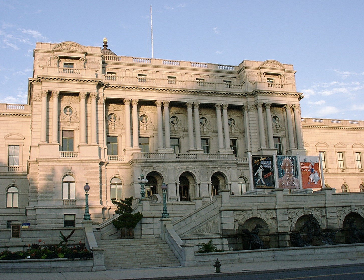 Library of Congress, Jefferson Building, in Washington, D.C.